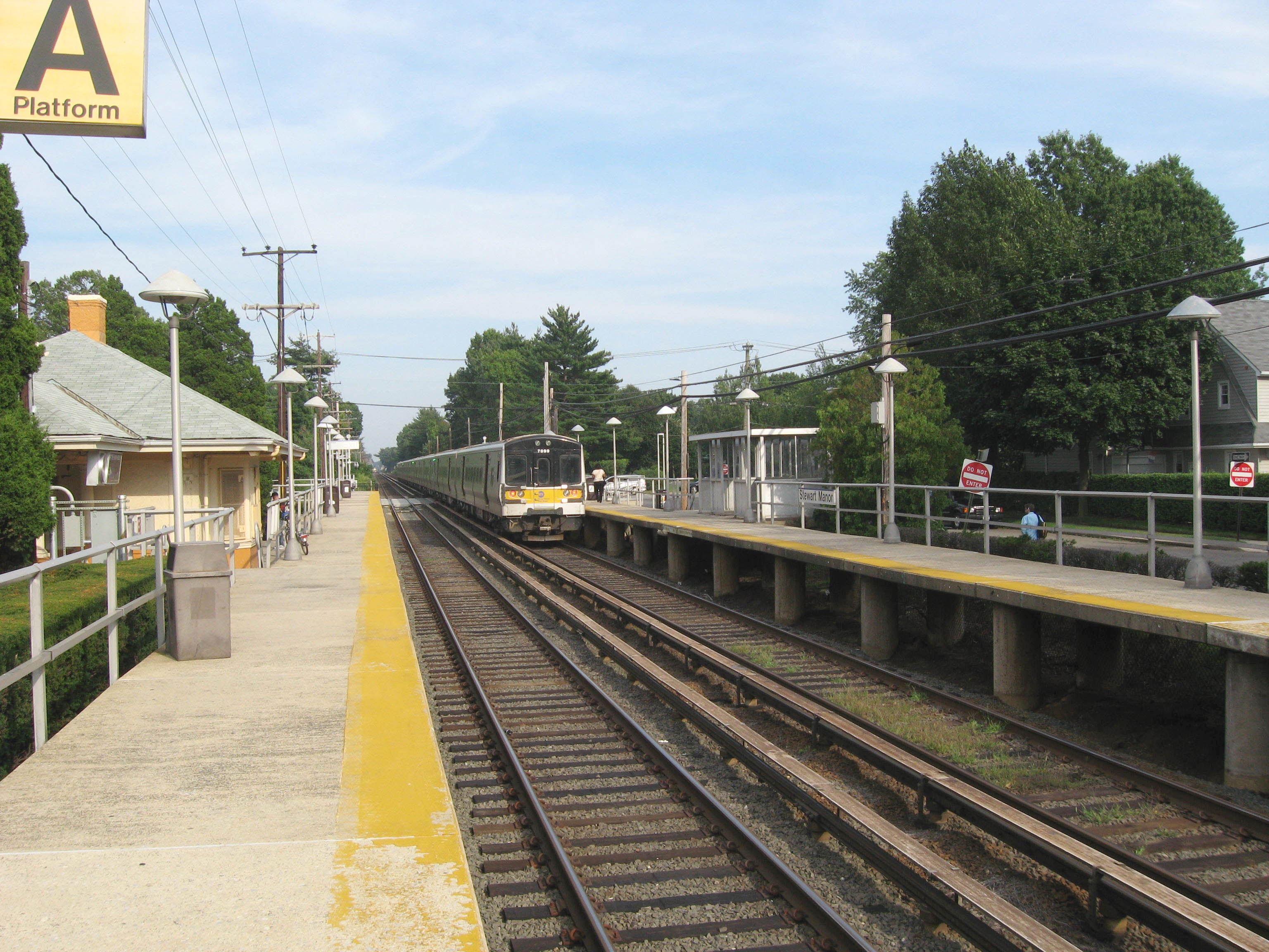 Looking east as an eastbound train pulls out of Stewart Manor (LIRR station) on a partly cloudy afternoon